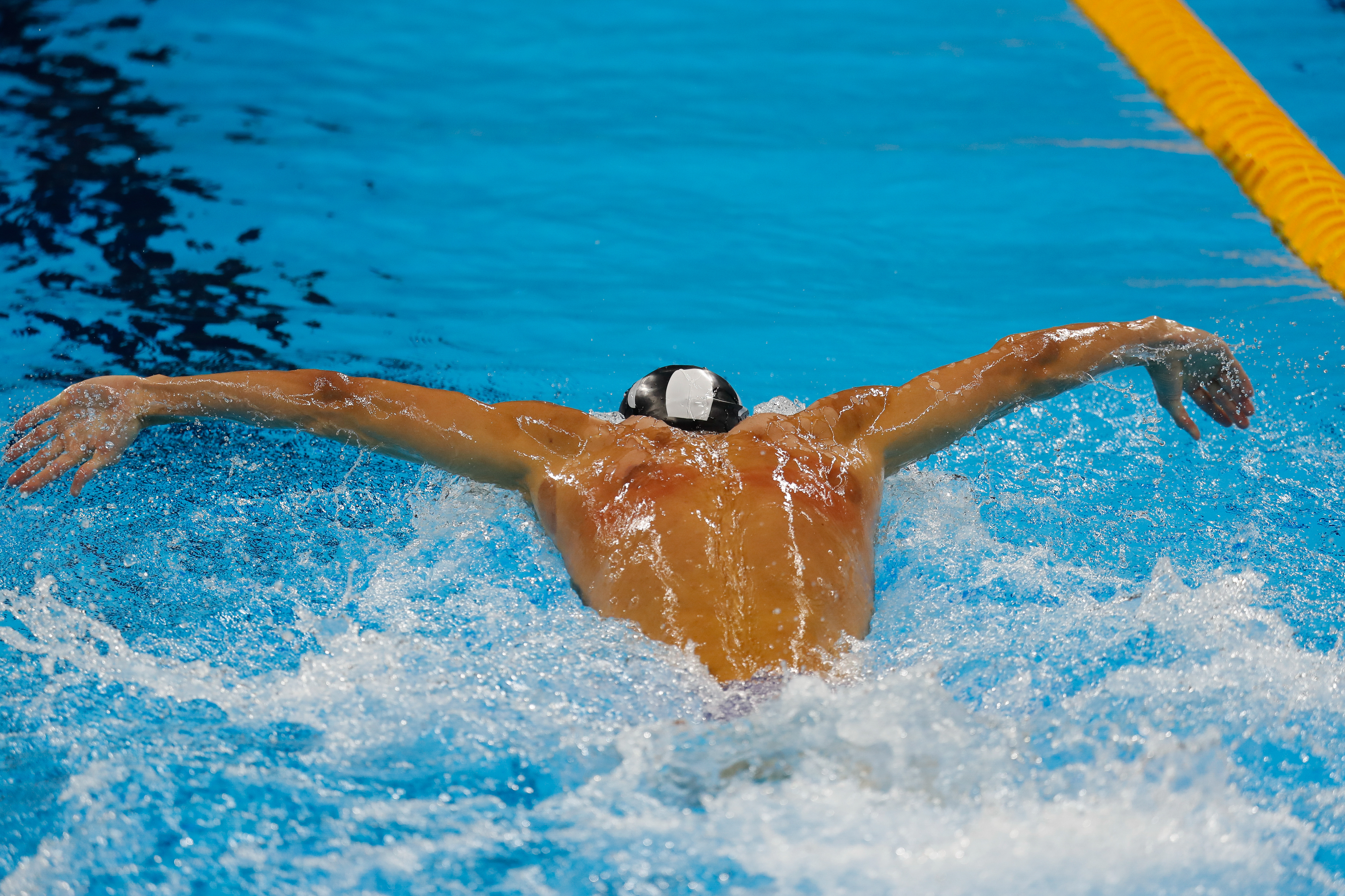 Rio de Janeiro - Michael Phelps, dos Estados Unidos, ganha sua 20ª medalha de ouro olímpica, nos 200m nado borboleta, nos Jogos Rio 2016. (Fernando Frazão/Agência Brasil)